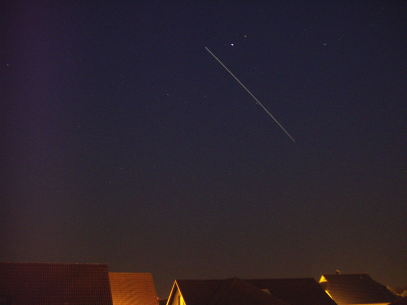 ISS photographed on 26th of July 2007